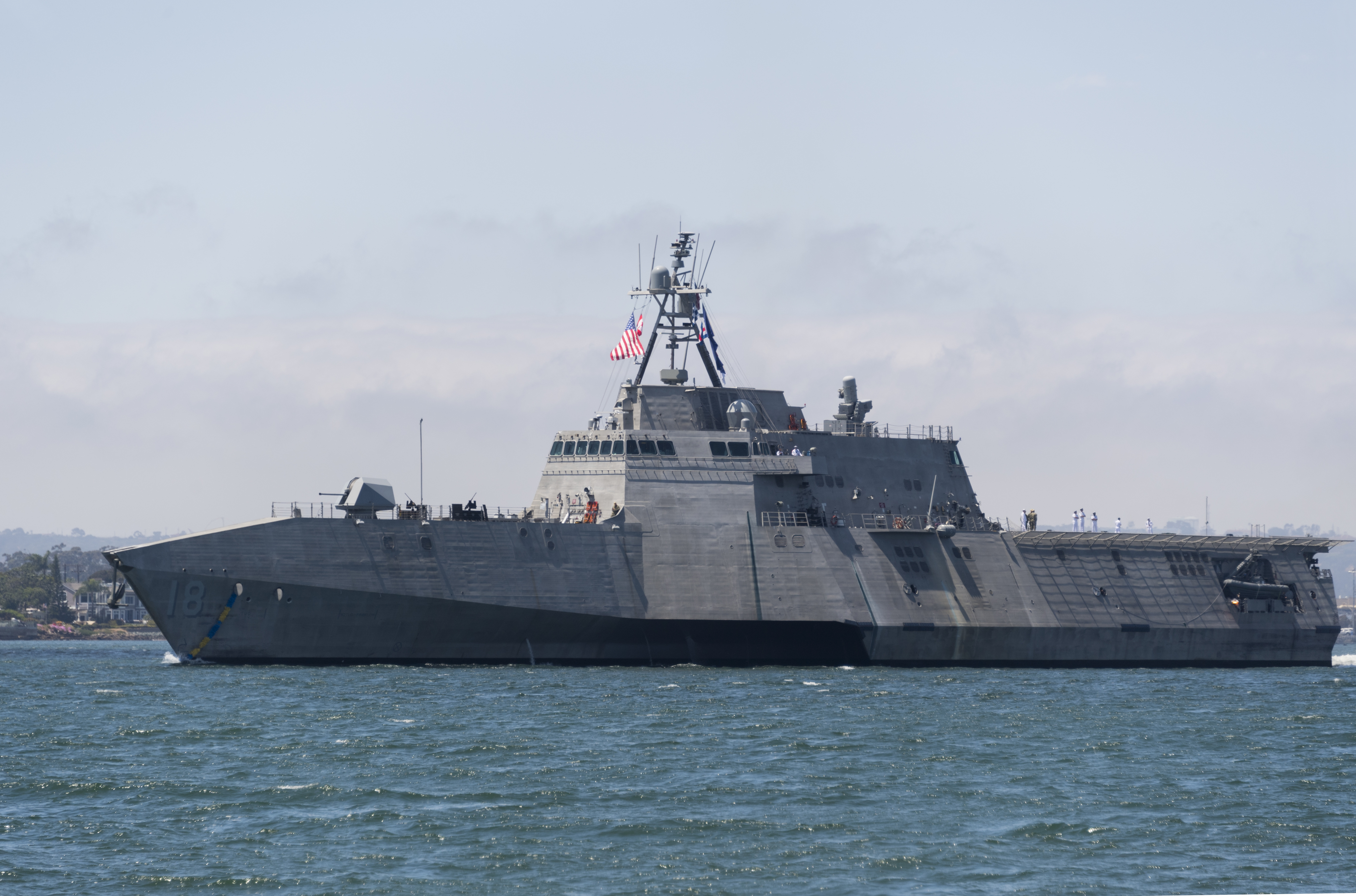 The U.S. Navy littoral combat ship USS Charleston (LCS-18) sails through San Diego Bay, California (USA), to the ship's homeport Naval Base San Diego on 19 April 2019, successfully completing its maiden voyage from the Austal USA shipyard in Mobile, Alabama (USA).